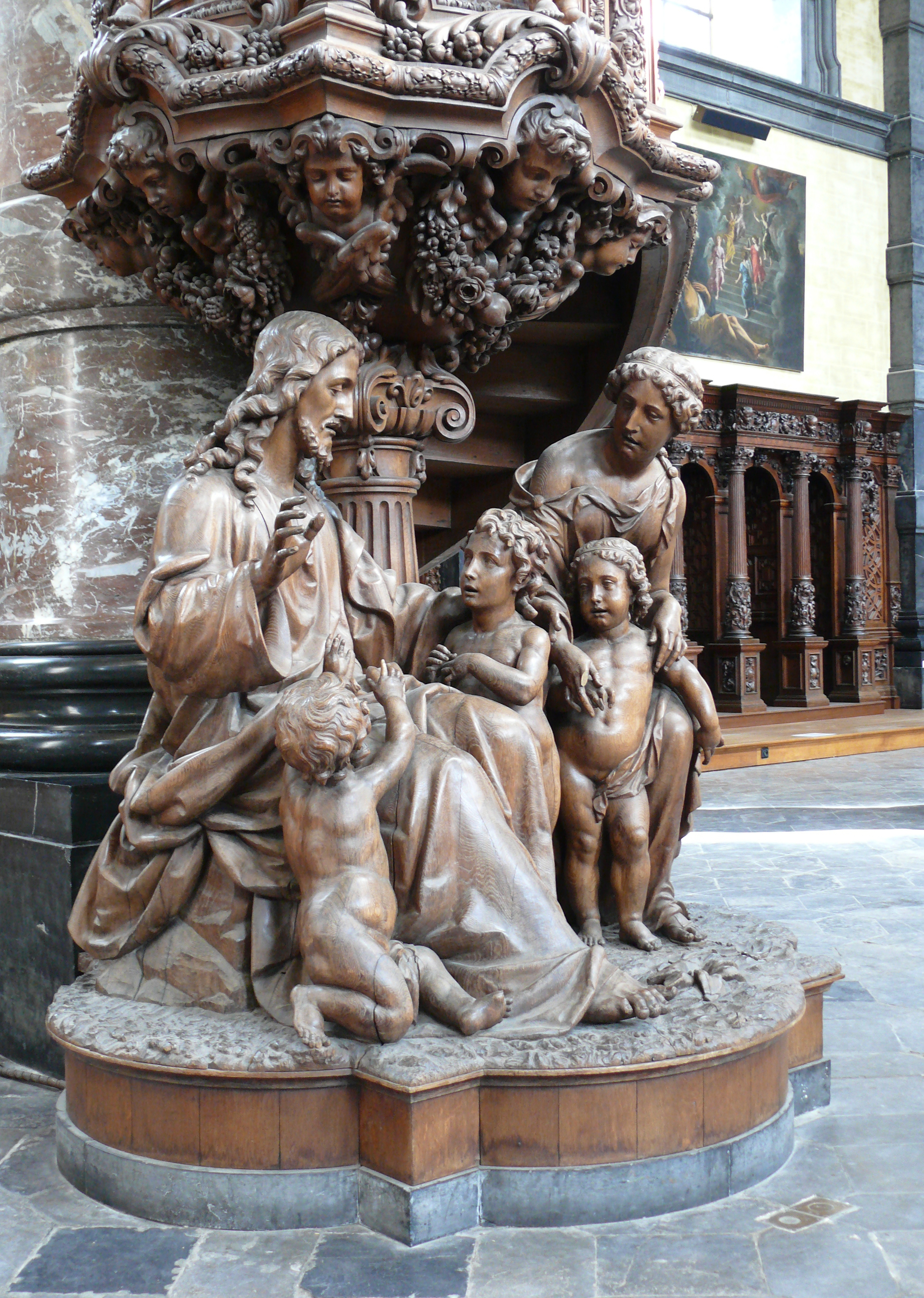 The pulpit in the Jesuit Saint-Loup church in Namur. The monumental sculpture, "Suffer Little Children to come unto Me" was made by the Dinant sculptor Benjamin Devigne (1827 - 1894) in 1876.